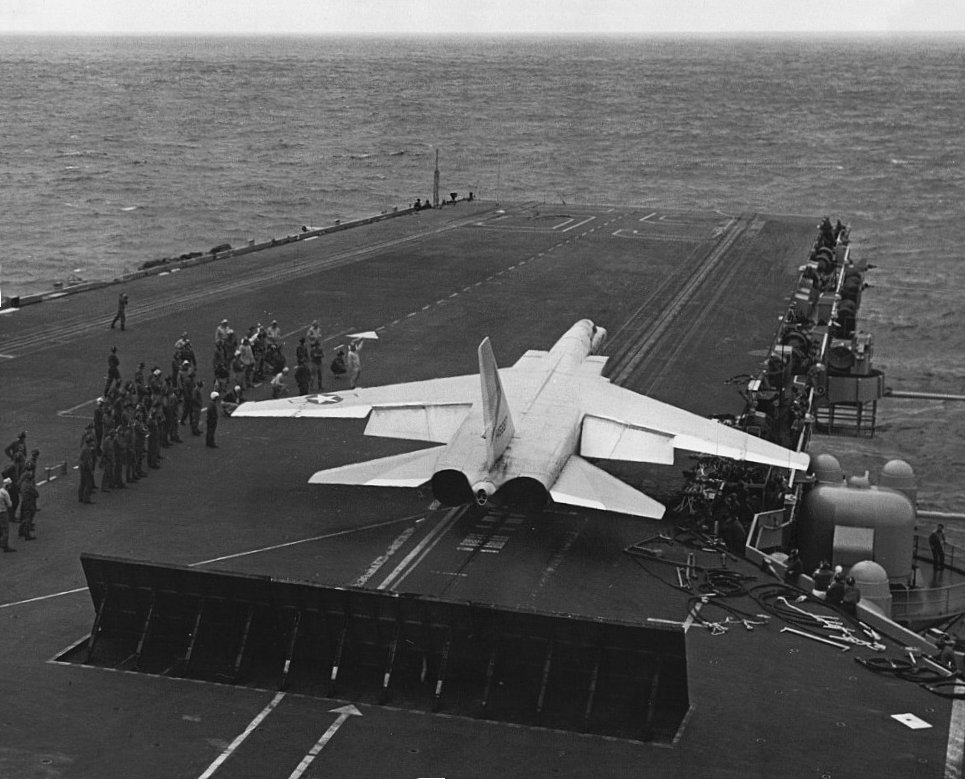 A North American A3J-1 Vigilante bomber conducting carrier trials aboard the aircraft carrier USS Forrestal (CVA-59) between 31 October and 8 November 1960. This plane appears to be BuNo 146697, the 4th production Vigilante, which had been used for initial carrier suitability tests aboard USS Saratoga (CVA-60) the previous July, and is now preserved at NAS Patuxent River (Maryland, USA).